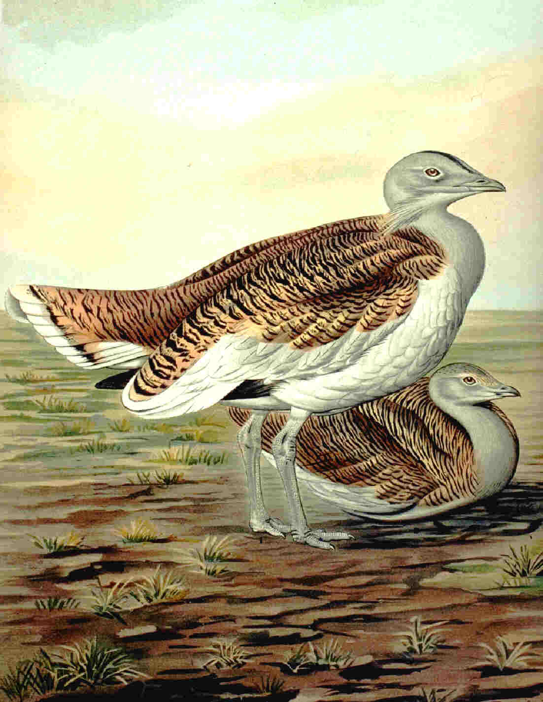 great bustard (Otis tarda) Source: 1905 German Encyclopaedia